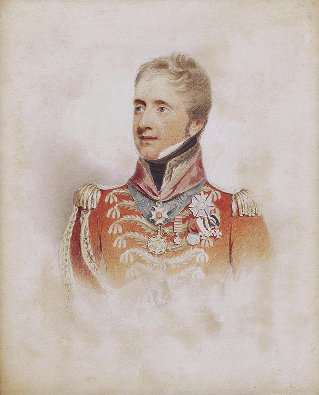 FitzRoy James Henry Somerset, later 1st Baron Raglan, G.C.B., (1788-1855)